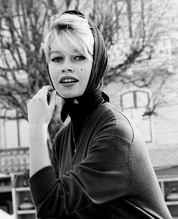 The French actress and model Brigitte Bardot posing on a curling field. Cortina d'Ampezzo